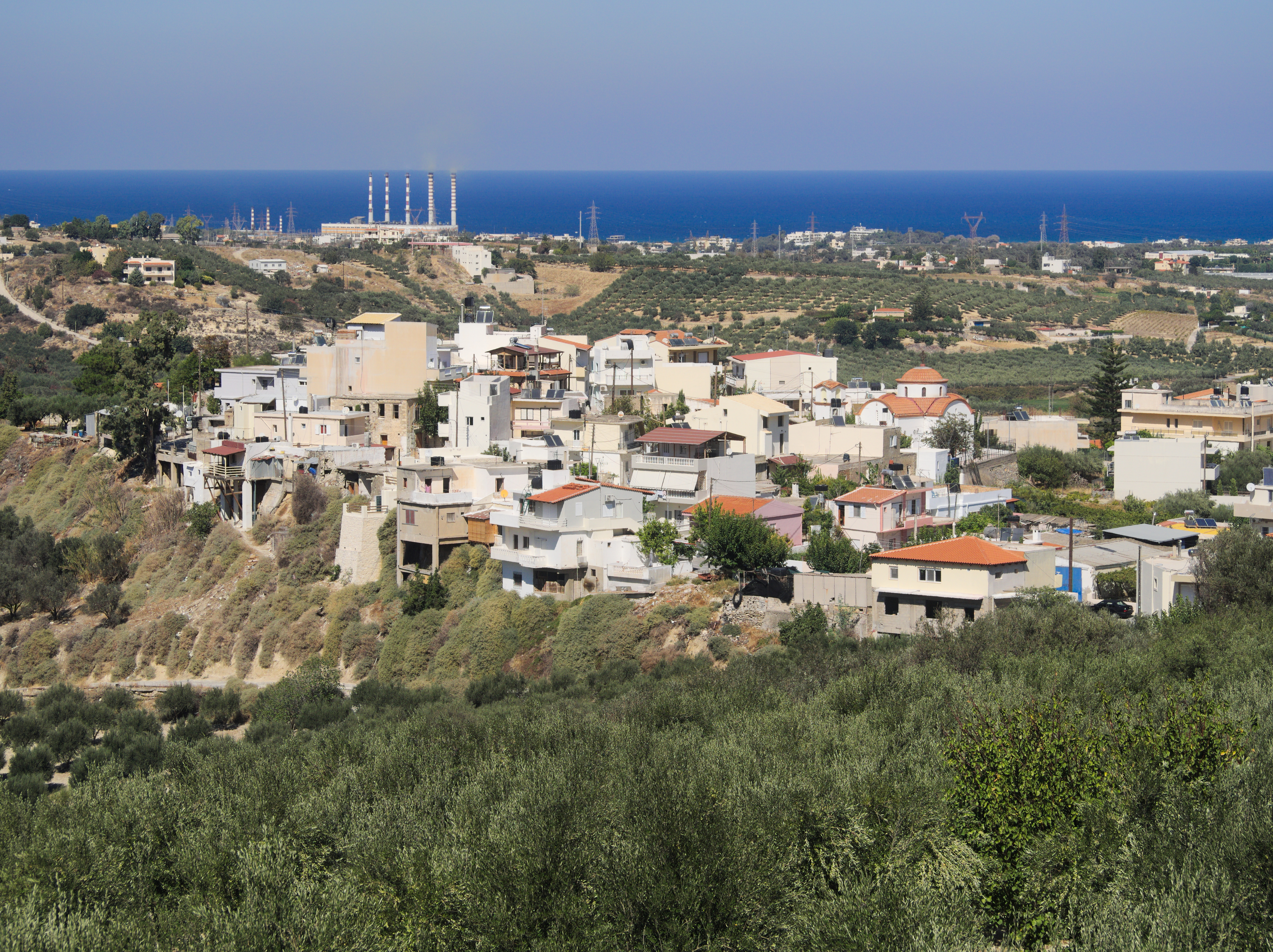 View of Kavrochori, near Gazi, from south.